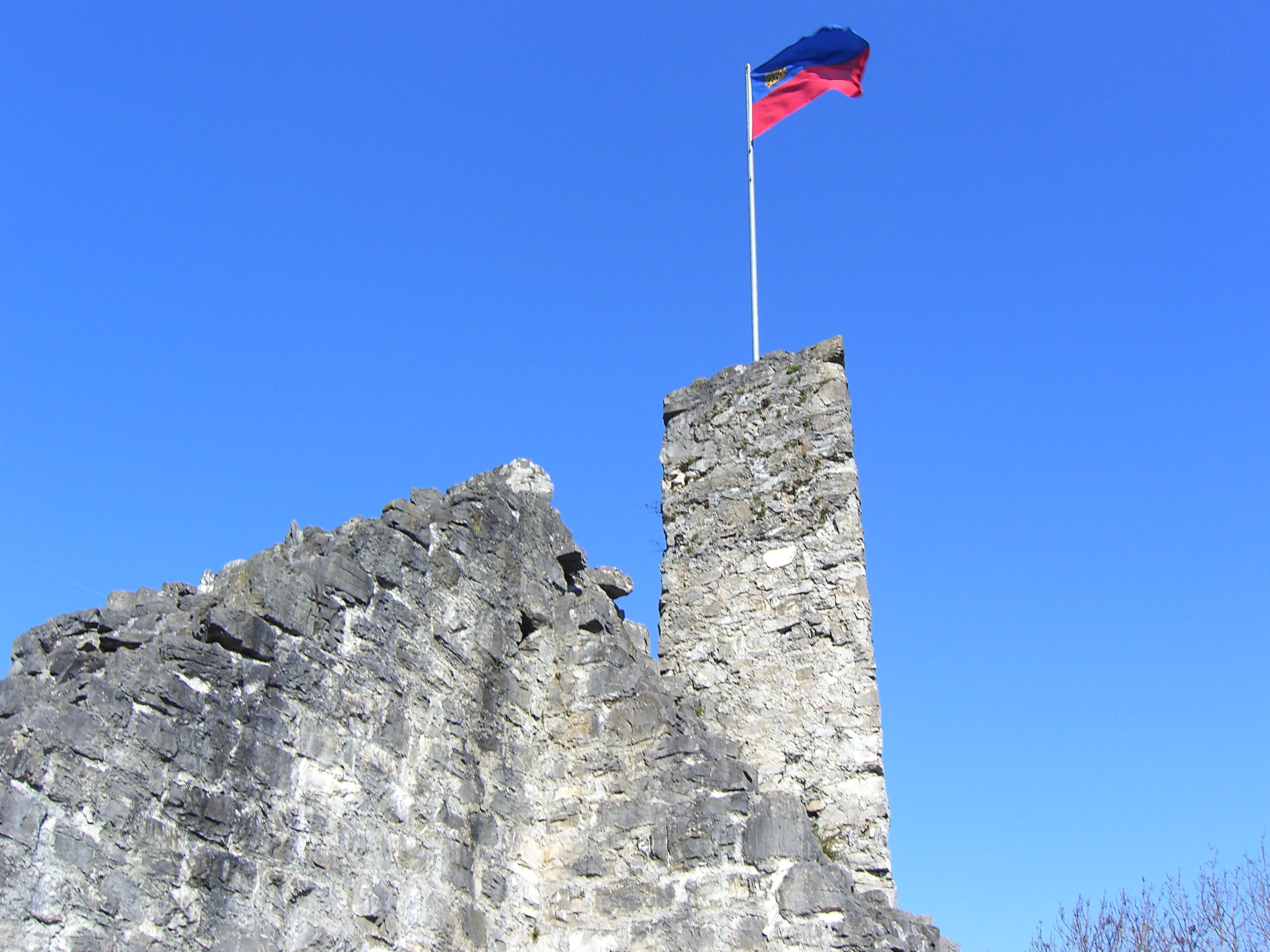 Flag of Liechtenstein near to border with Austria, by Schellenberg